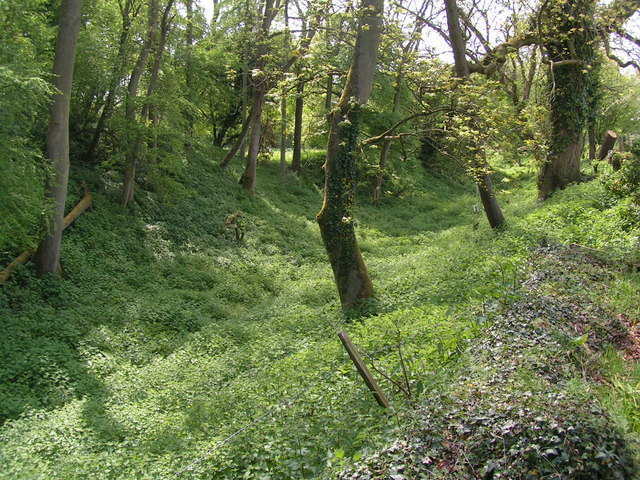 This image was taken from the Geograph project collection. See this photograph's page on the Geograph website for the photographer's contact details. The copyright on this image is owned by Andy Dolman and is licensed for reuse under the Creative Commons Attribution-ShareAlike 2.0 license. Attribution: Andy Dolman